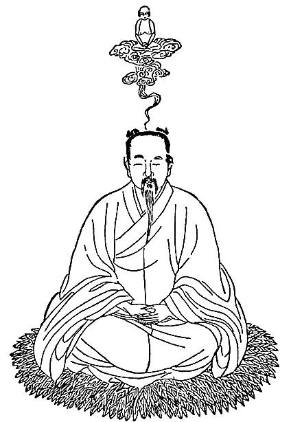 PD - artwork. Illustration from Chinese book of alchemy and meditation scanned from reproduction in above work. Third stage of process (detail).